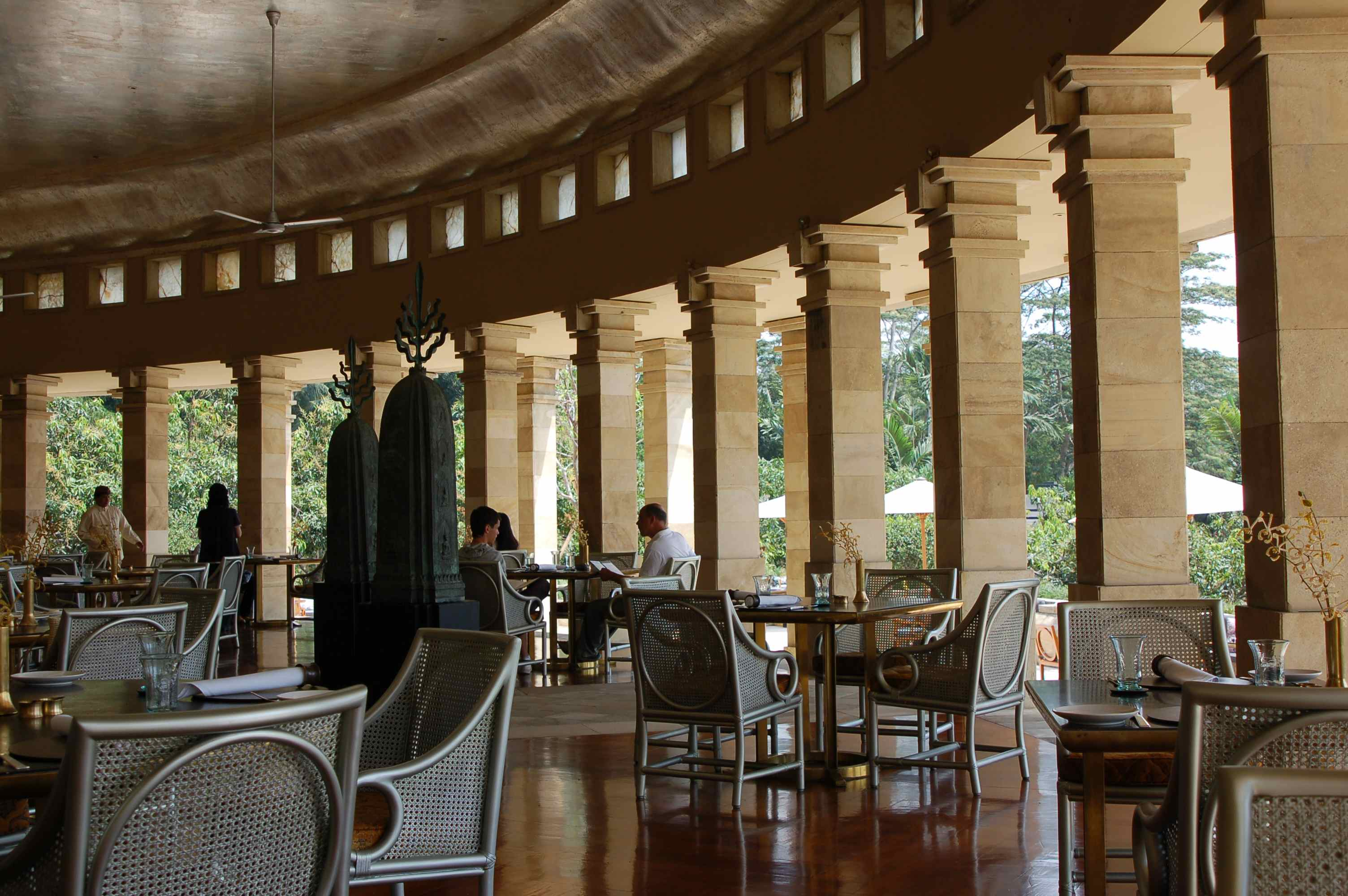 Amanjiwo Resort, Indonesia